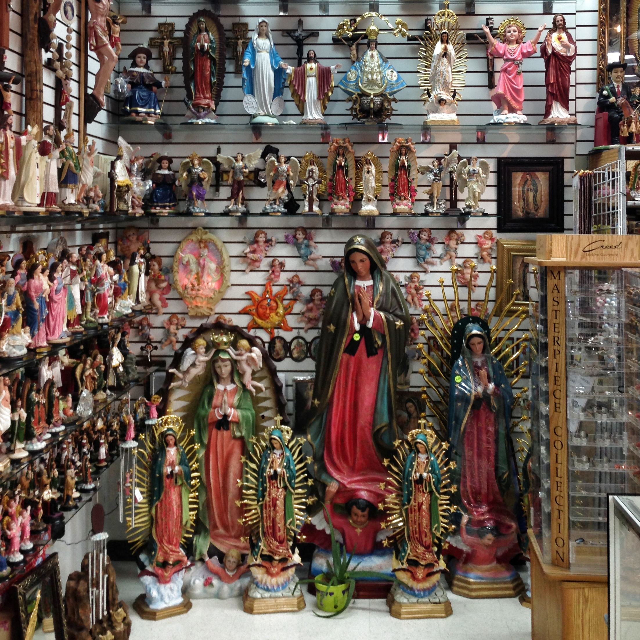 Religious statuary store in Plaza Fiesta, DeKalb County, Metro Atlanta, Georgia, May 2013